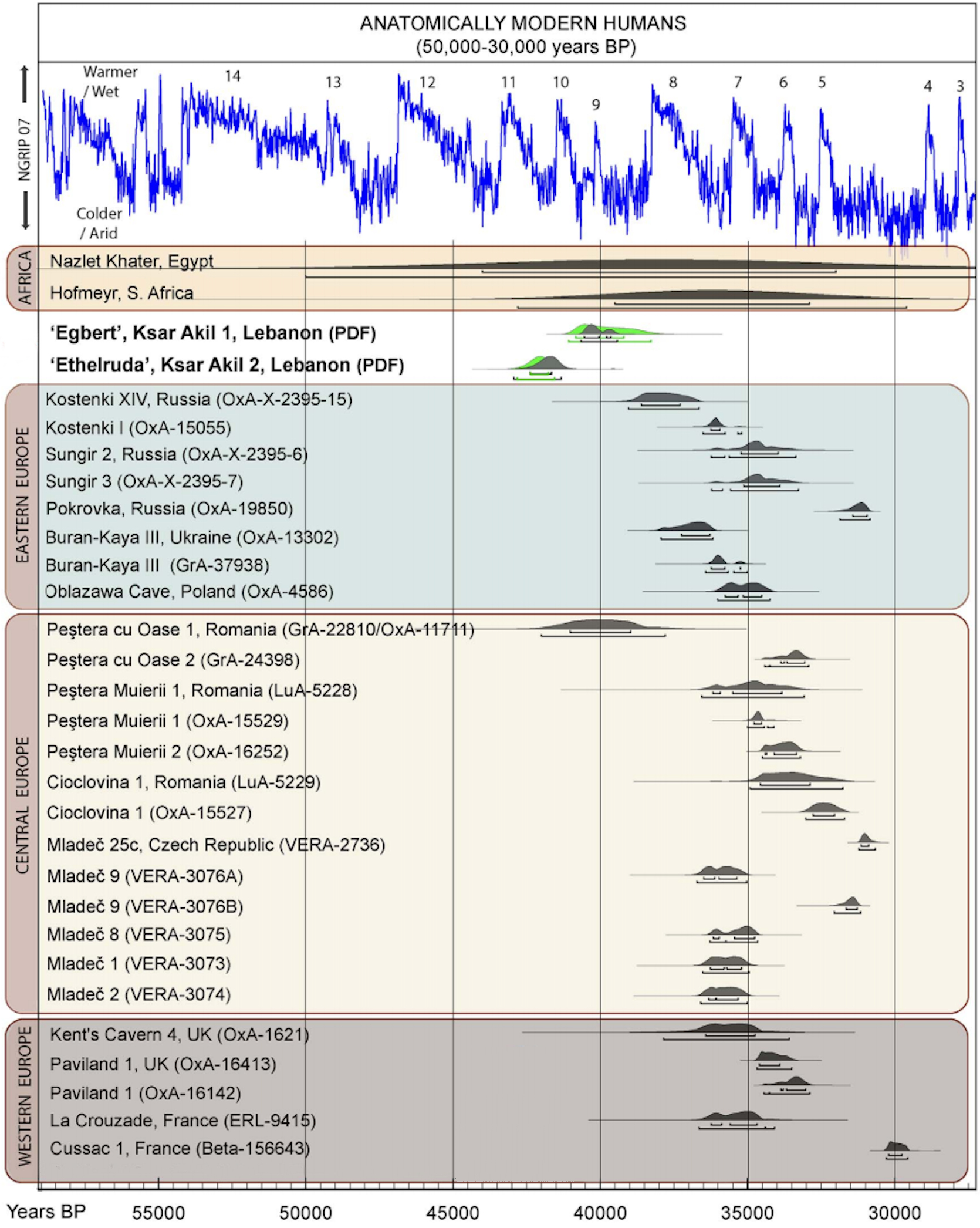 Anatomically Modern Humans archaeological remains, Europe and Africa, directly dated, calibrated carbon dates as of 2013 See also From the same publication. Original caption: Figure 3. Comparison of the modelled ages (Probability Distribution Function; PDF) obtained for Egbert and Ethelruda with age estimates of AMH from other Palaeolithic sites between 50,000–30,000 years ago. The PDFs for the Ksar Akil fossils (Model 1 in green, Model 2 in black), as derived from the Bayesian modelling (Text S1 (SI Section III), Figs. S4–5), are plotted against the currently available determinations for AMH from Europe and Africa [9], [10]. The likelihoods for the directly-dated specimens are shown in dark grey, whereas the PDFs for those dated indirectly, in light blue. Egbert is contemporaneous with the oldest directly-dated European modern human (Peştera cu Oase, [54]) and falls within the earlier part of the ranges for both Nazlet Khater and Hofmeyer, the African AMH; these dates, however, are very imprecise. The Peştera cu Oase date is a mean of two determinations, one ultrafiltered and one not. The age estimate for Ethelruda is broadly similar to that for the AMH maxilla from Kent's Cavern, but not older than the AMH teeth from Cavallo in Italy. The radiocarbon determinations were calibrated with the INTCAL09/ Marine09 curve [50] and the modelling was performed using OxCal v.4.1.7 [51]. The top graph (cf. figure 2) shows climate reconstruction based on the NGRIP δ18O, the numbers reference the Greenland Interstadials, c.f. File:Ice-core-isotope.png, Dansgaard–Oeschger event